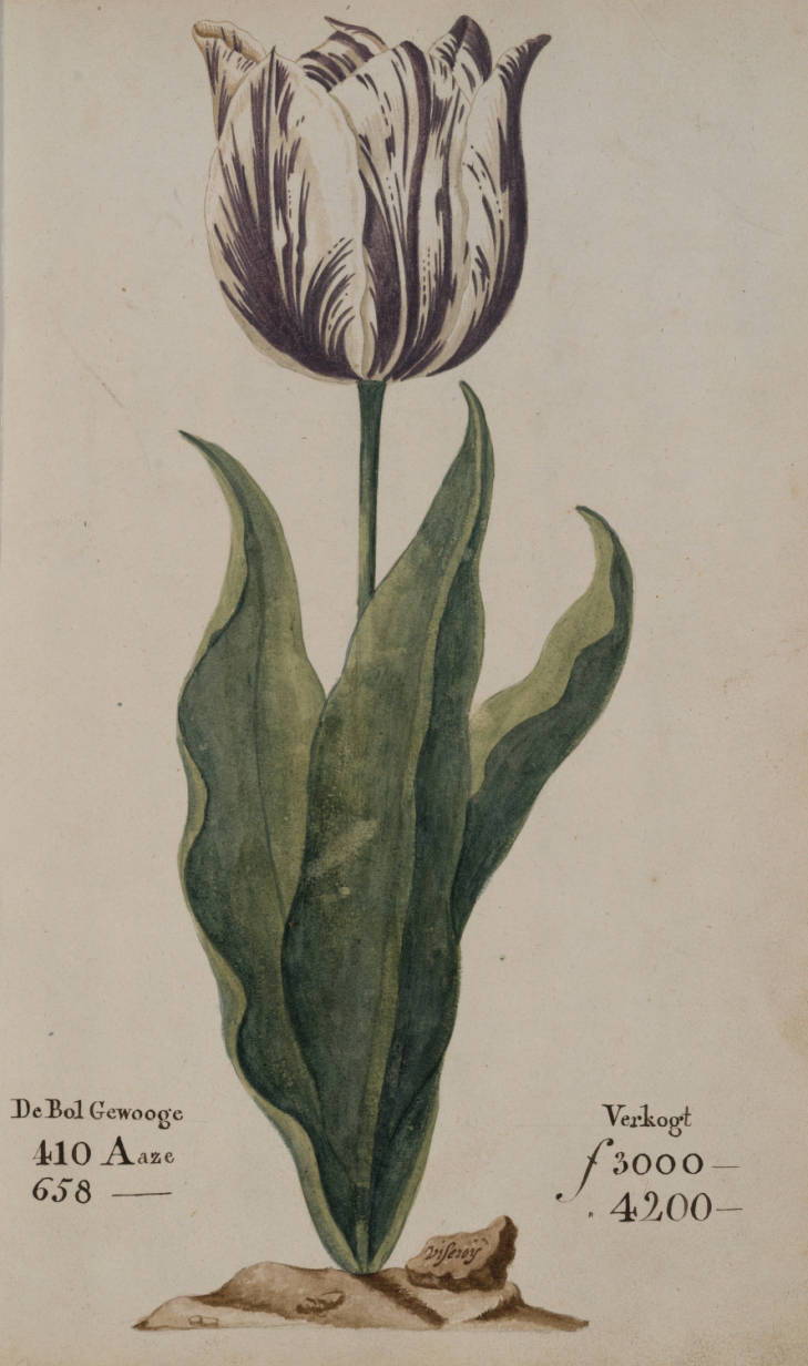 An image from Verzameling Van Een Meenigte Tulipaanen -- the 1637 tulip book of P. Cos, the source document for much of what is known about Tulip mania